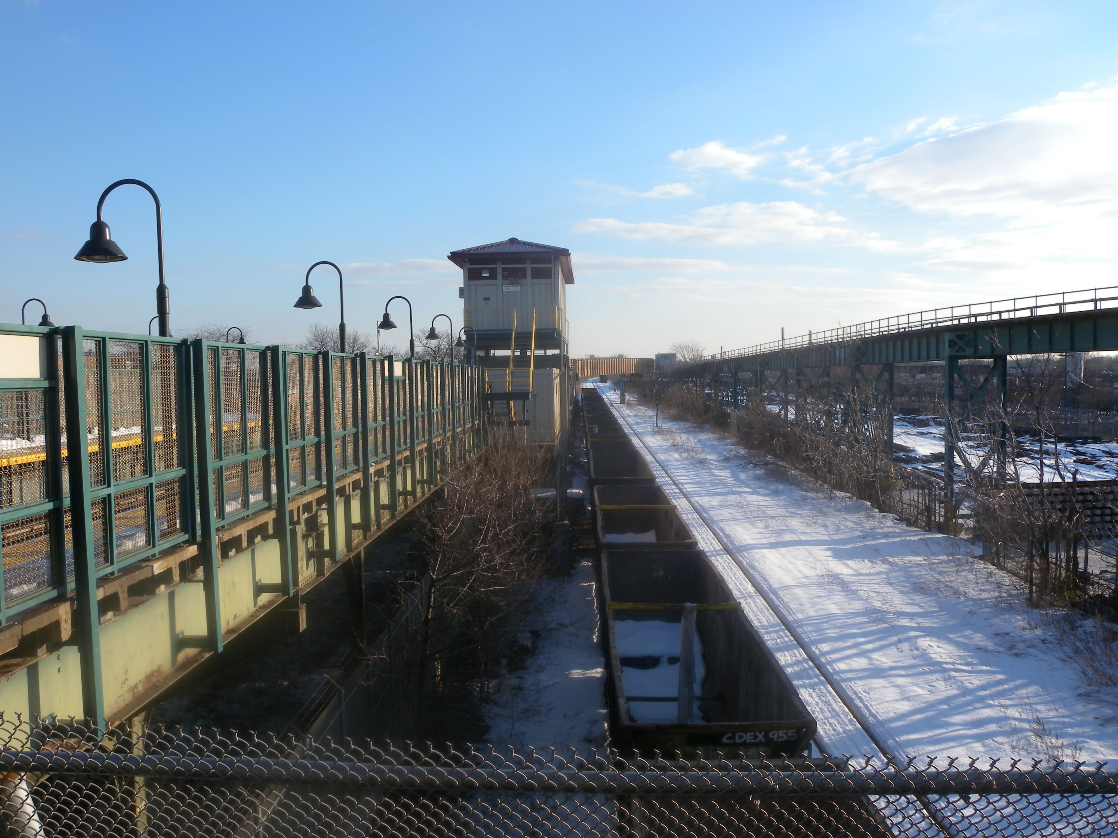 Looking south from staircase at southbound side of Livonia station of Canarsie line, New York City Subway, on a sunny afternoon.